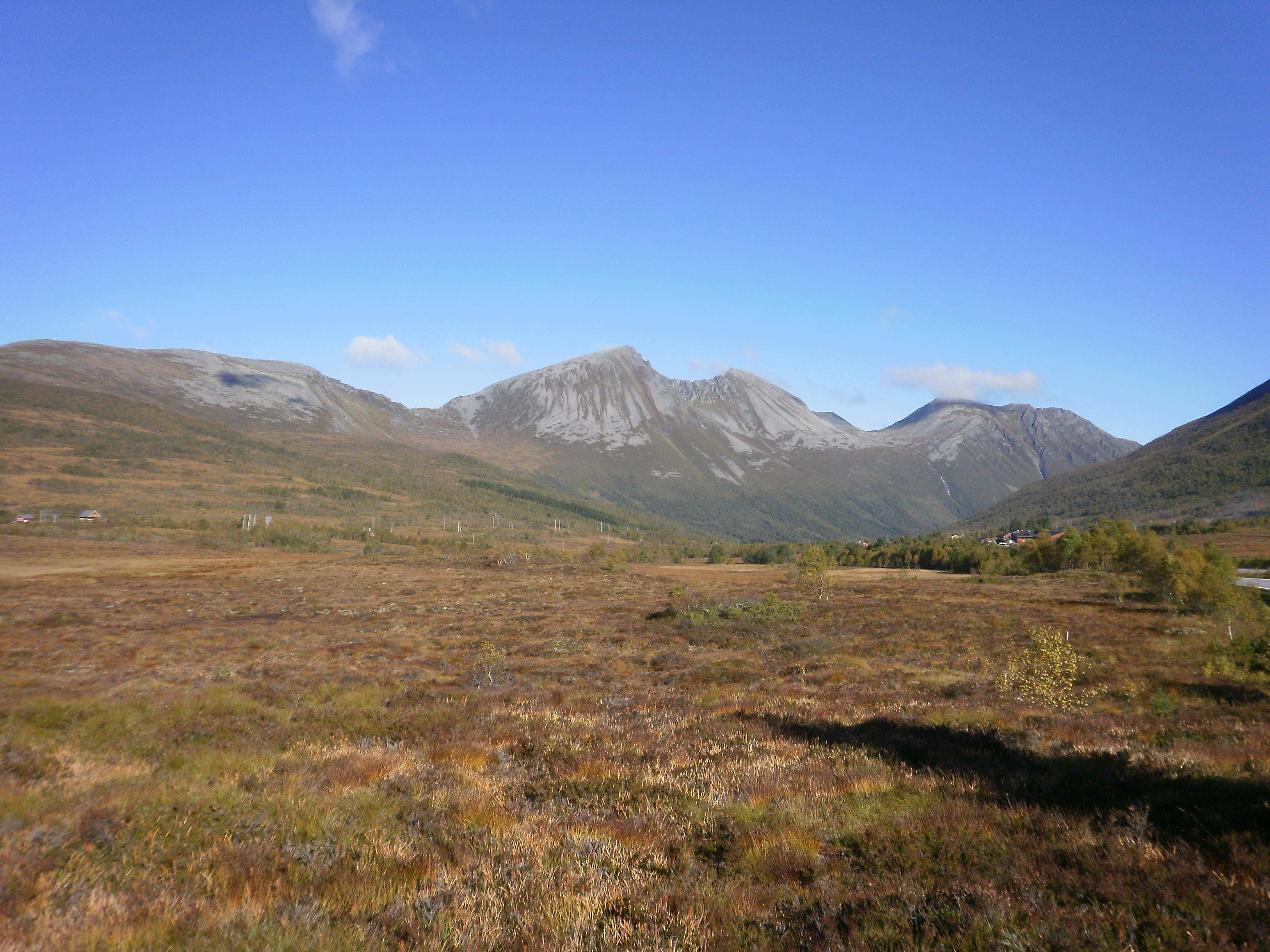 The two peaks in the center is Trolltinden and Ytstetinden in Skorgedalen, Vestnes, Norway (Trolltinden left of center). To the right is Remmemstinden, and at the left edge Sandfjellet.